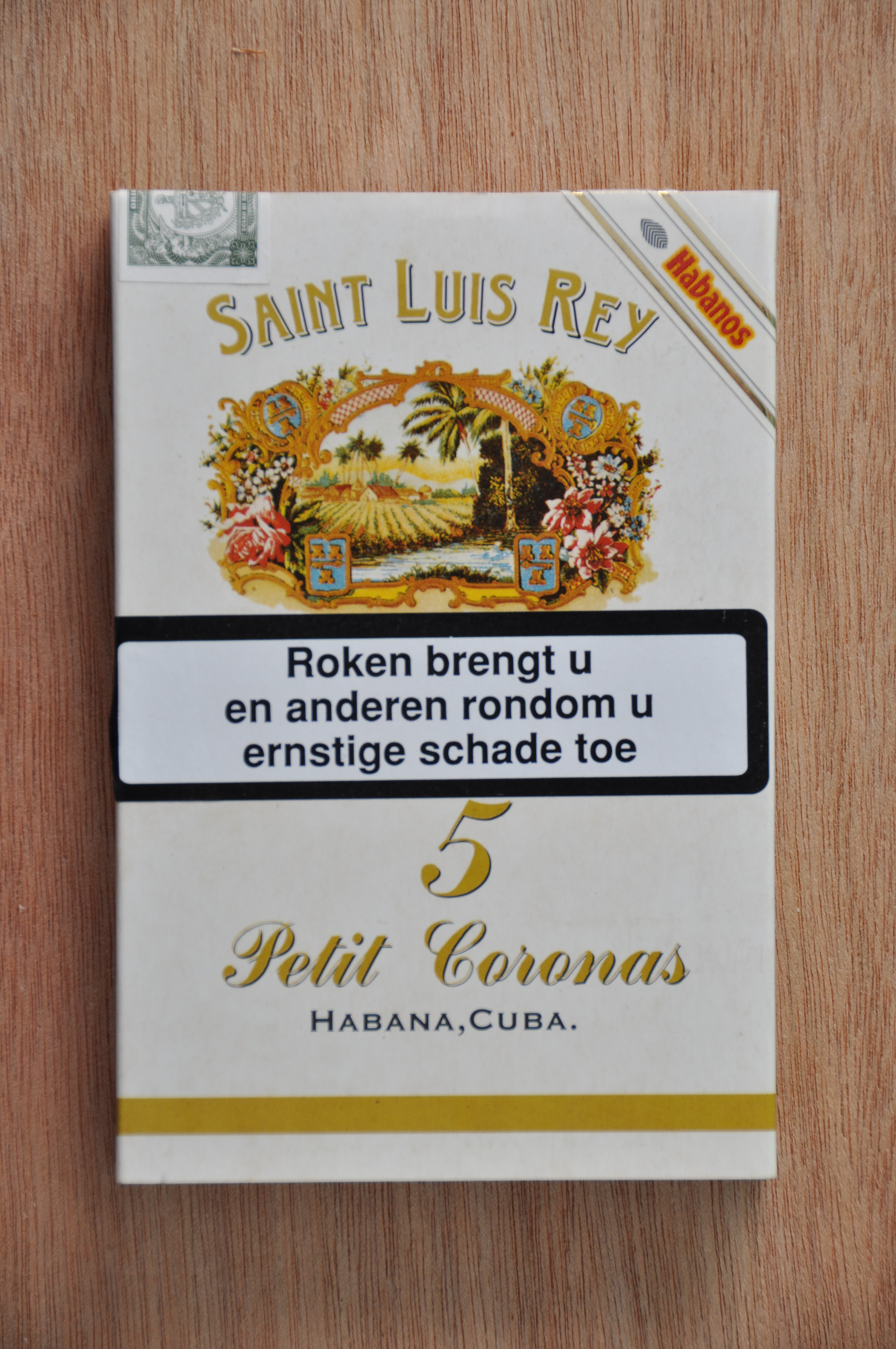 Saint Luis Rey cigars 5x Petit Coronas